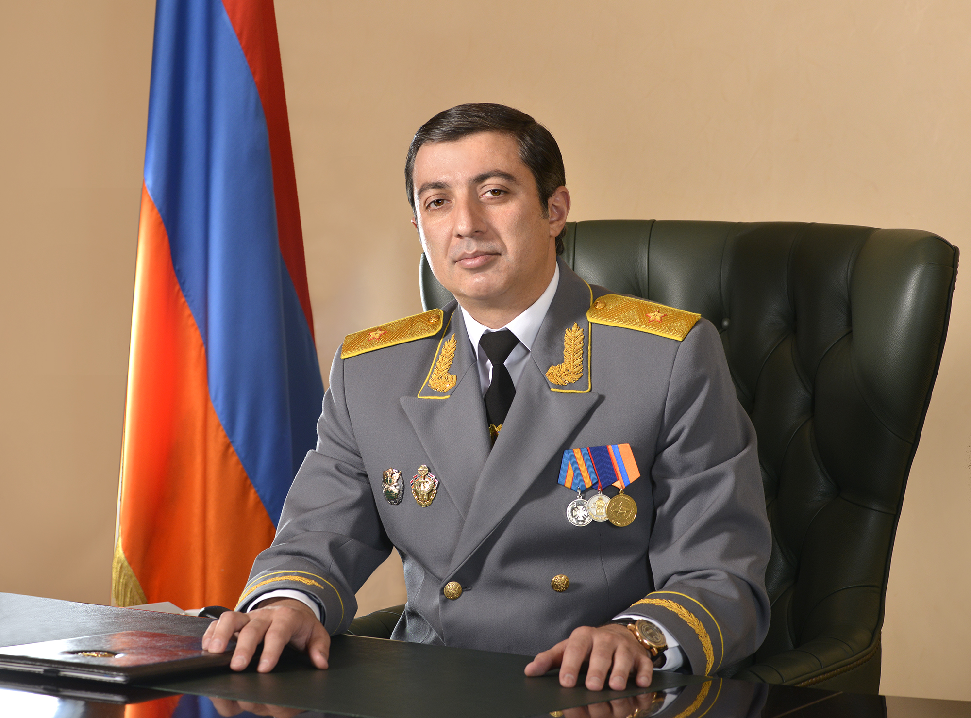 Chief Compulsory Enforcement Officer of the Republic of Armenia